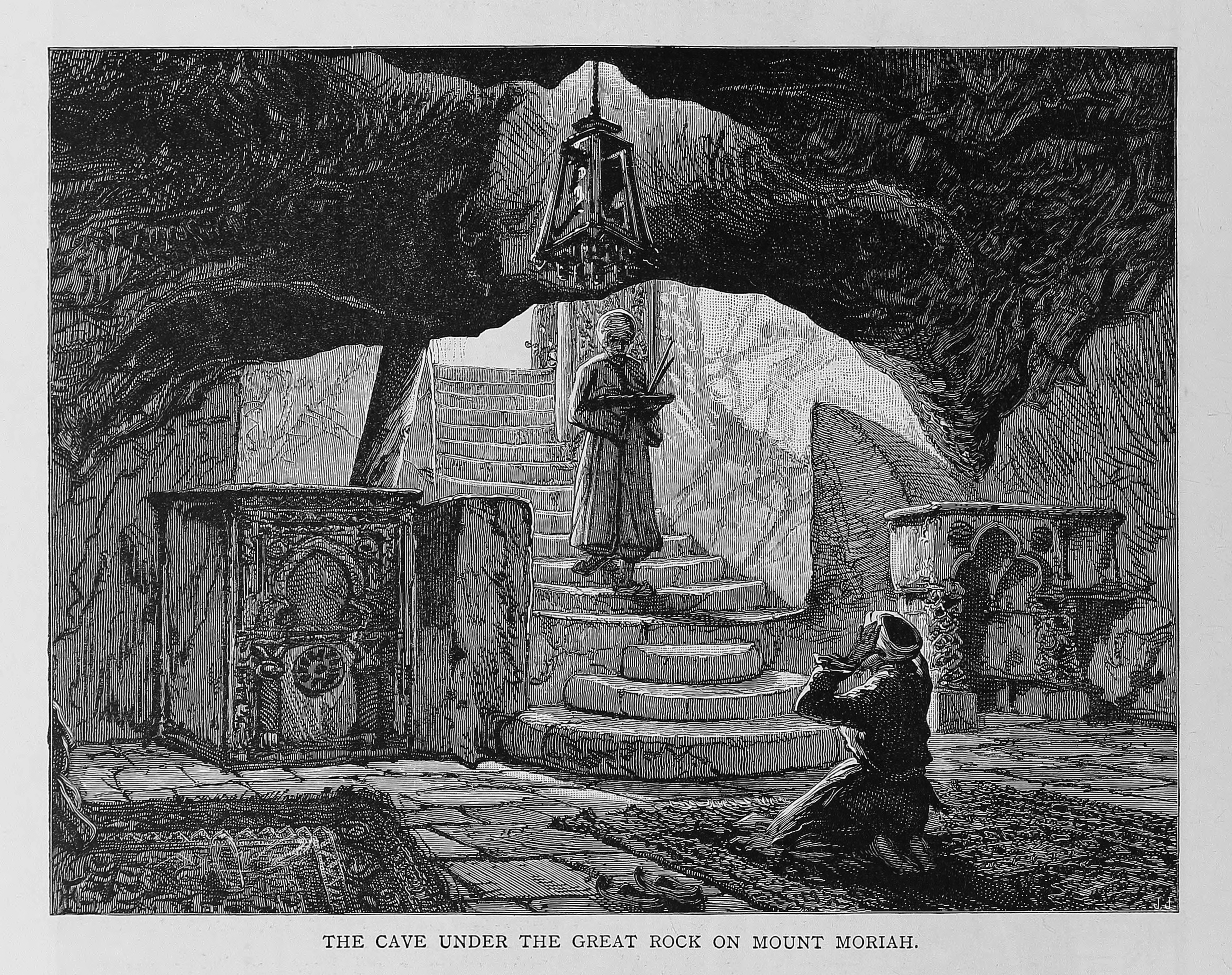 Caption: the cave under the great rock on mount moriah.